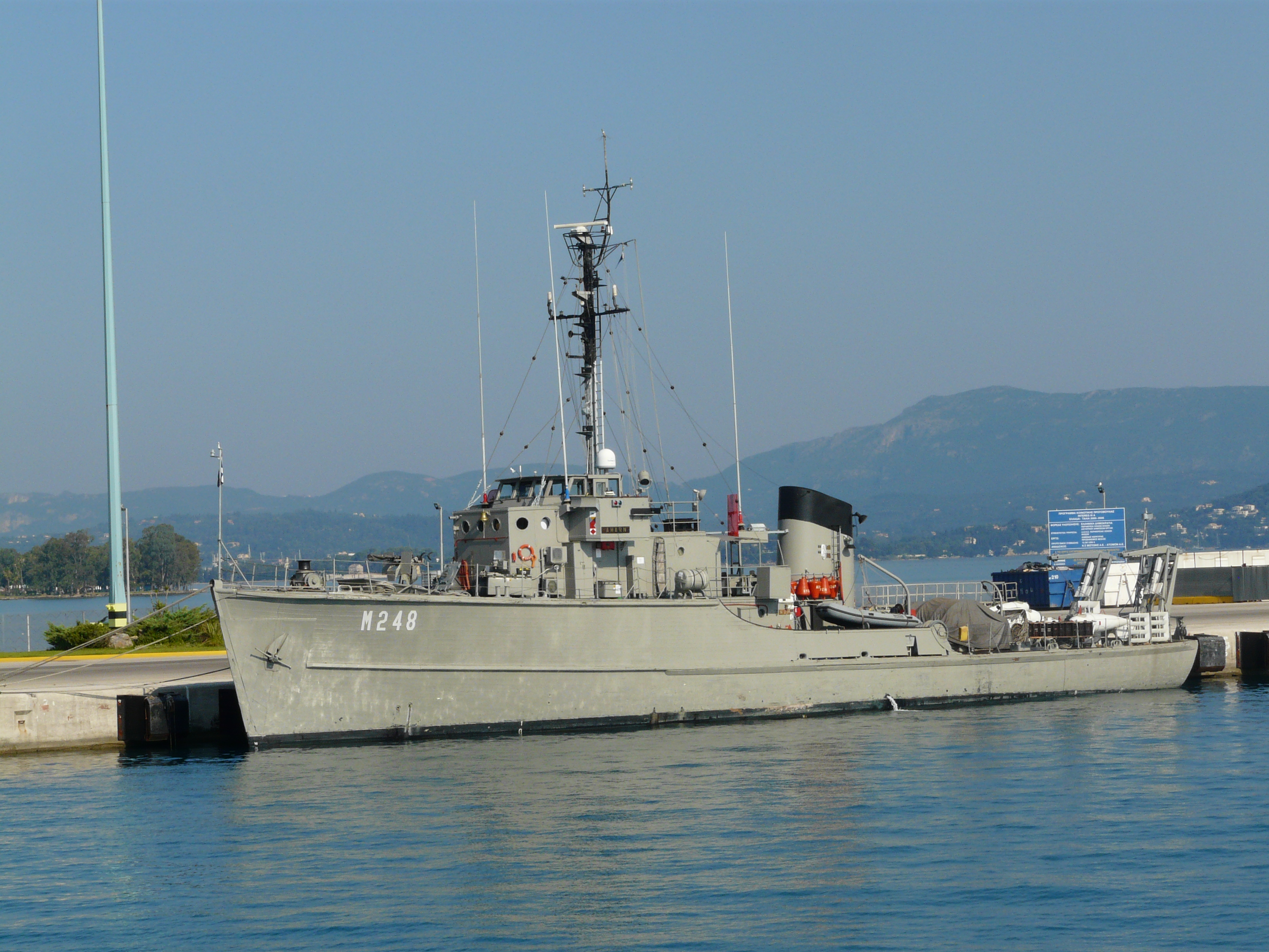 Corfu-Albania trip. Possibly Corfu town